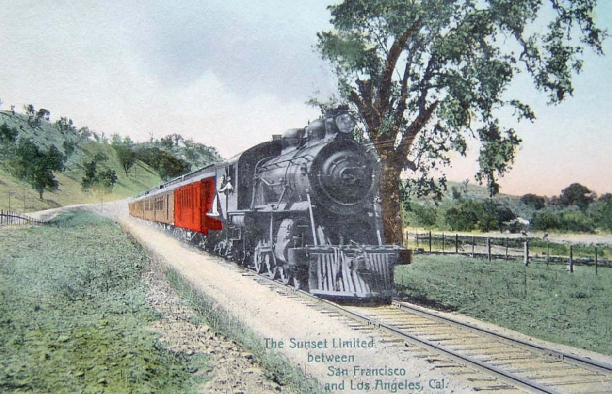 Postcard photo of the Southern Pacific train "Sunset Limited", as it traveled between Los Angeles & San Francisco. The train's eastern origin was in New Orleans.